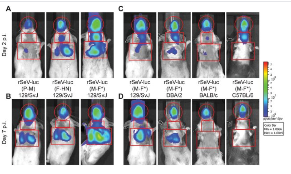 Eight-week-old mice were intranasally inoculated with 7,000 PFU of rSeV-luc(P-M), rSeV-luc(F-HN), or rSeV-luc(M-F*). Every 24 hours the mice were intraperitoneally injected with luciferin substrate, anesthetized with isoflurane, imaged with a Xenogen IVIS device, and then allowed to recover. Bioluminescence in one experiment is shown on day 2 (A) and day 7 (B) post-infection (p.i.) in 129/SvJ mice infected with rSeV-luc(P-M), rSeV-luc(F-HN), or rSeV-luc(M-F*). Bioluminescence in a second experiment is shown on day 2 (C) or day 7 (D) for 129/SvJ, DBA/2, BALB/c, or C57BL/6 mice infected with rSeV-luc(M-F*). The data are displayed as radiance (bioluminescence intensity) on a rainbow log scale with a range of 1×106 (blue) to 1×109 (red) photons/s/cm2/steradian. Red circles indicate regions of interest (ROI) used to calculate the total flux (photons/s) in the nasopharynx, and red rectangles indicate the ROI areas for the trachea and lungs.